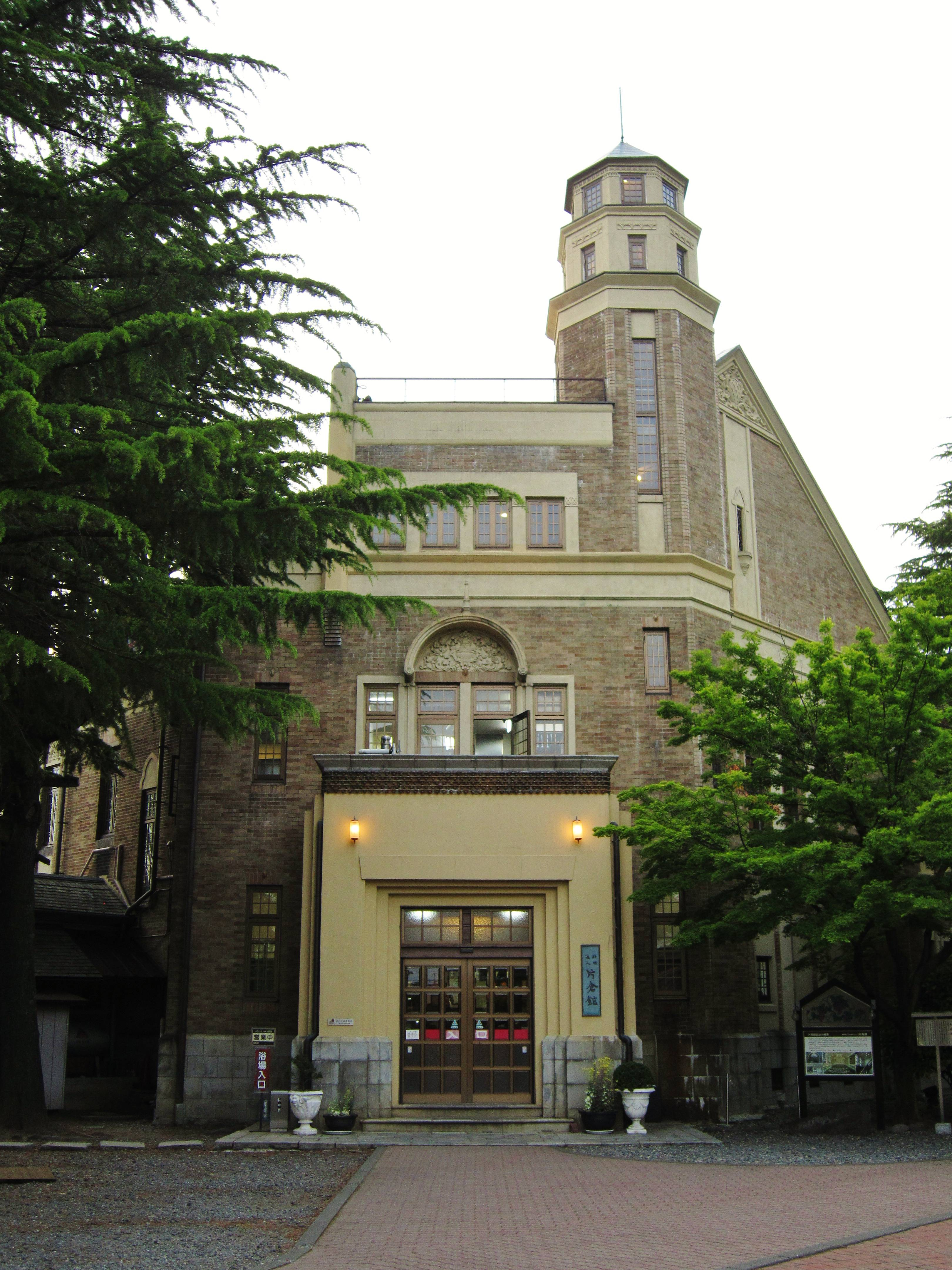 Katakurakan.